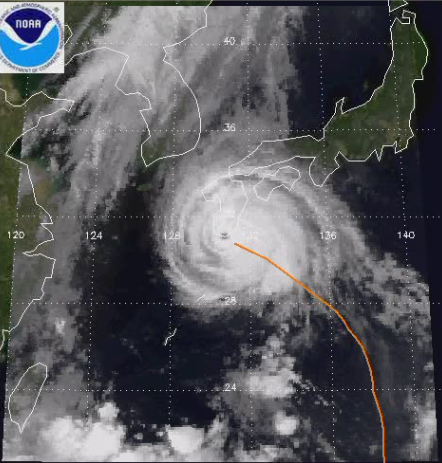 An image of Pacific typhoon Judy off the coast of Japan and approaching South Korea on July 27, 1989.